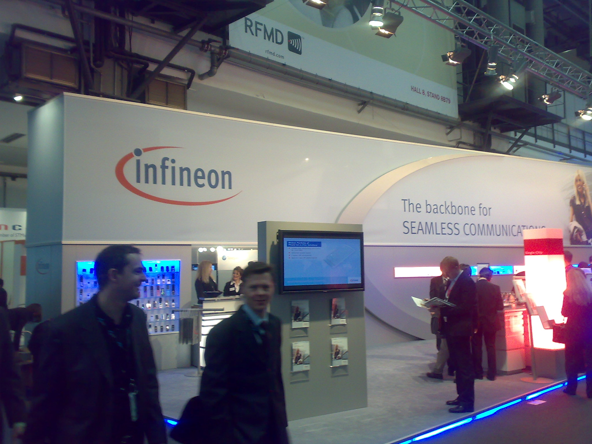 Infineon booth stand at GSMA Barcelona 2008.